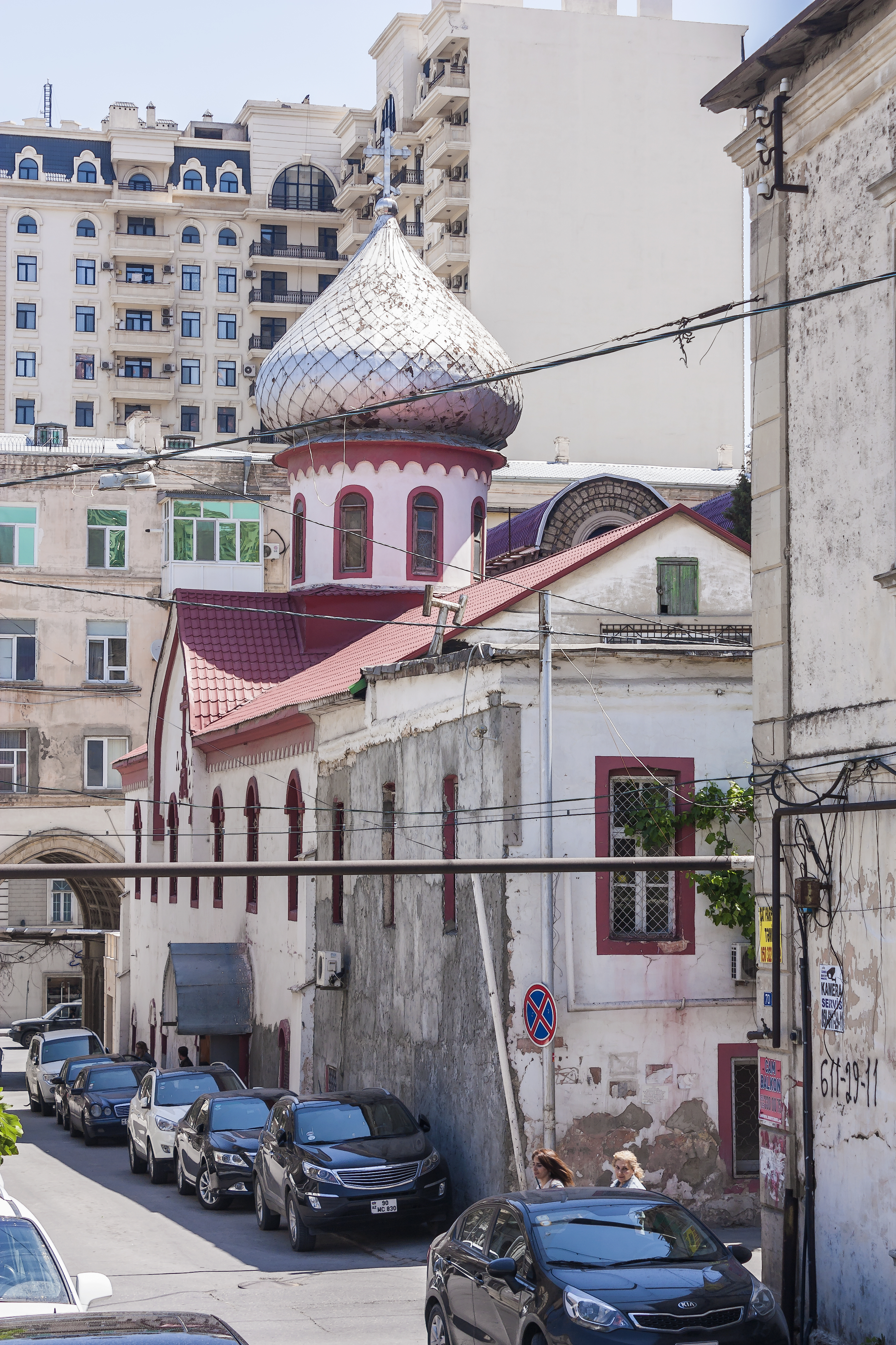 The Russian Orthodox Church, Baku, Yasamal district, Zərgərpalan street, 38